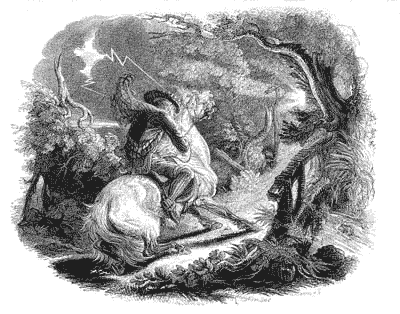 Illustration for Tam o'Shanter by Robert Burns, a woodcut